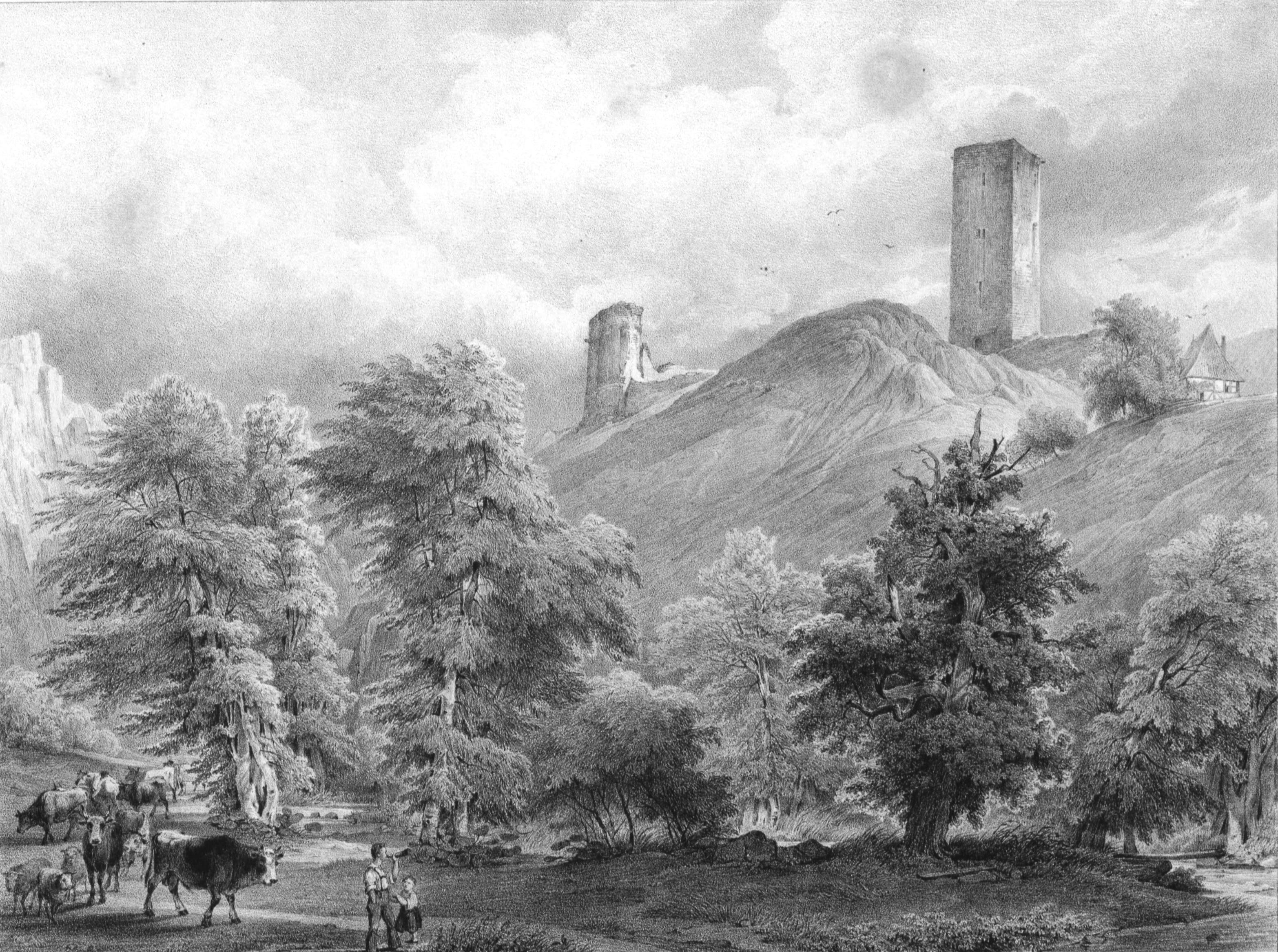 Picture of the Ruins of Castle Sponheim (presently Burgsponheim, Rüdesheim, Bad Kreuznach, Rhineland-Palatinate) mid of 19th century